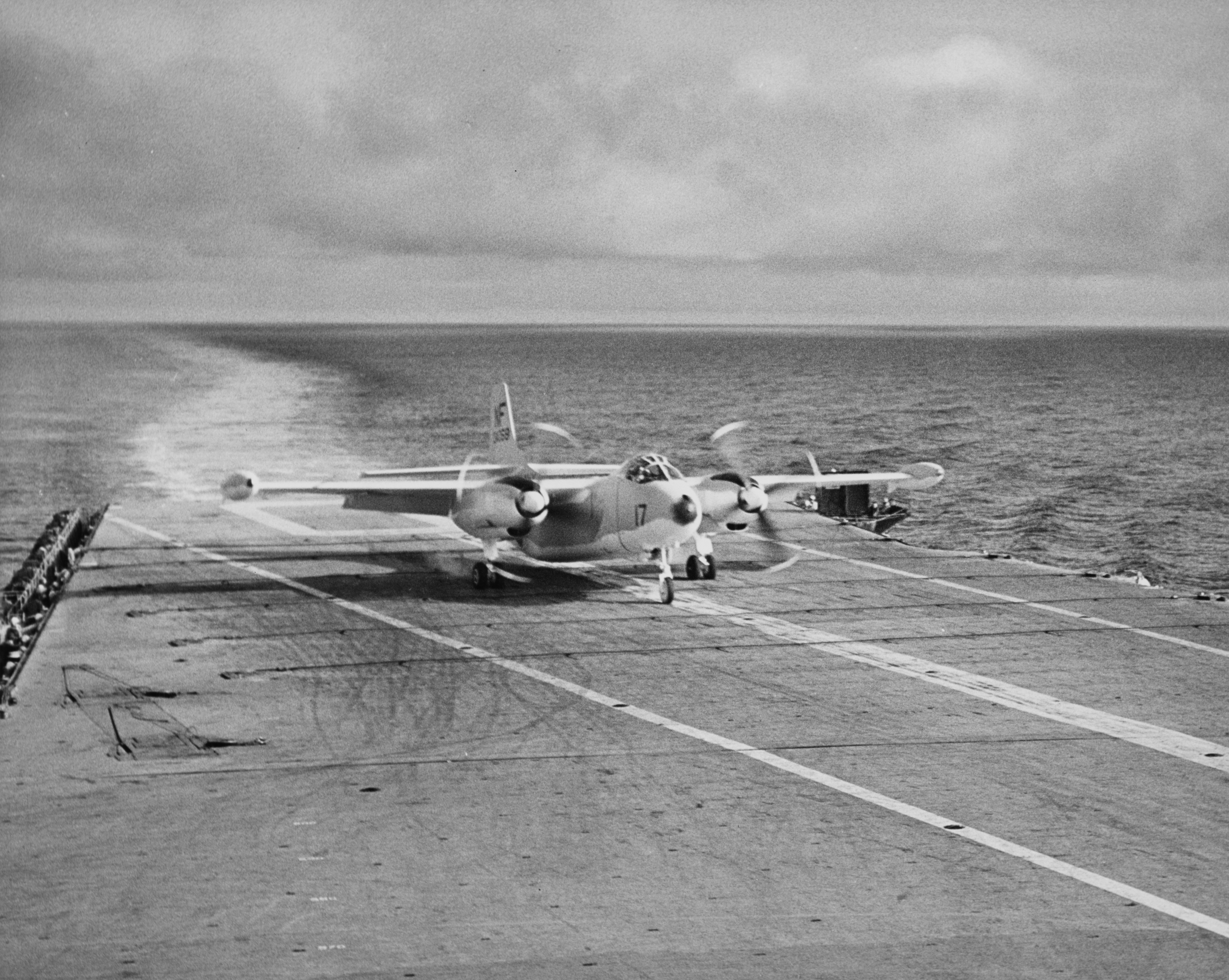 A U.S. Navy North American AJ-2 Savage (BuNo 134069) of Heavy Attack Squadron 6 (VAH-6) Det K. "Fleurs" landing on the aircraft carrier USS Yorktown (CVA-10) on 6 December 1955. VAH-6 Det.K was assigned to Air Task Group 4 (ATG-4) aboard the Yorktown for a deployment to the Western Pacific from 19 March to 13 September 1956.